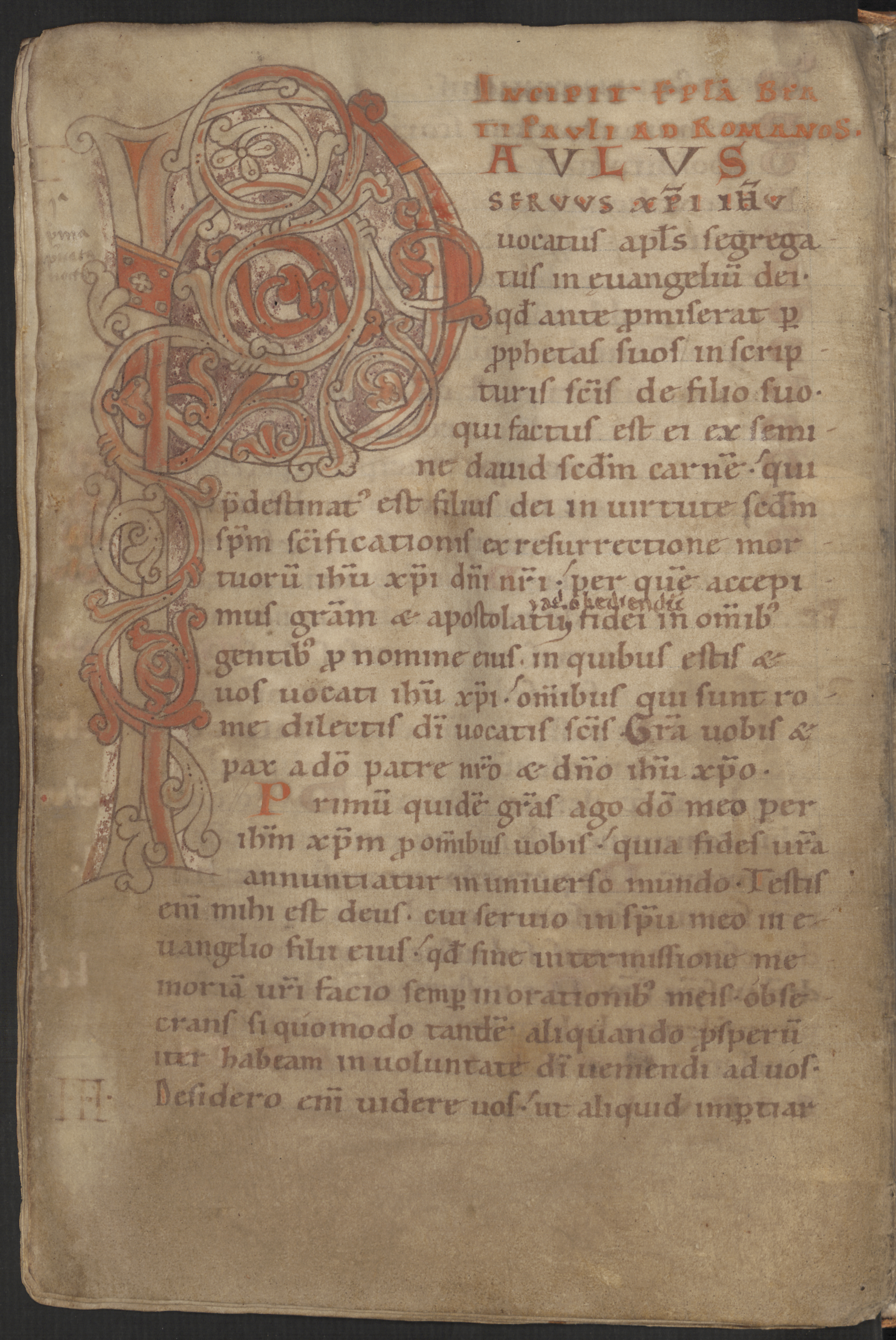 Ms.34, fol. 7v.